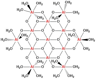 A figure representing 2D structure of flat Al13.